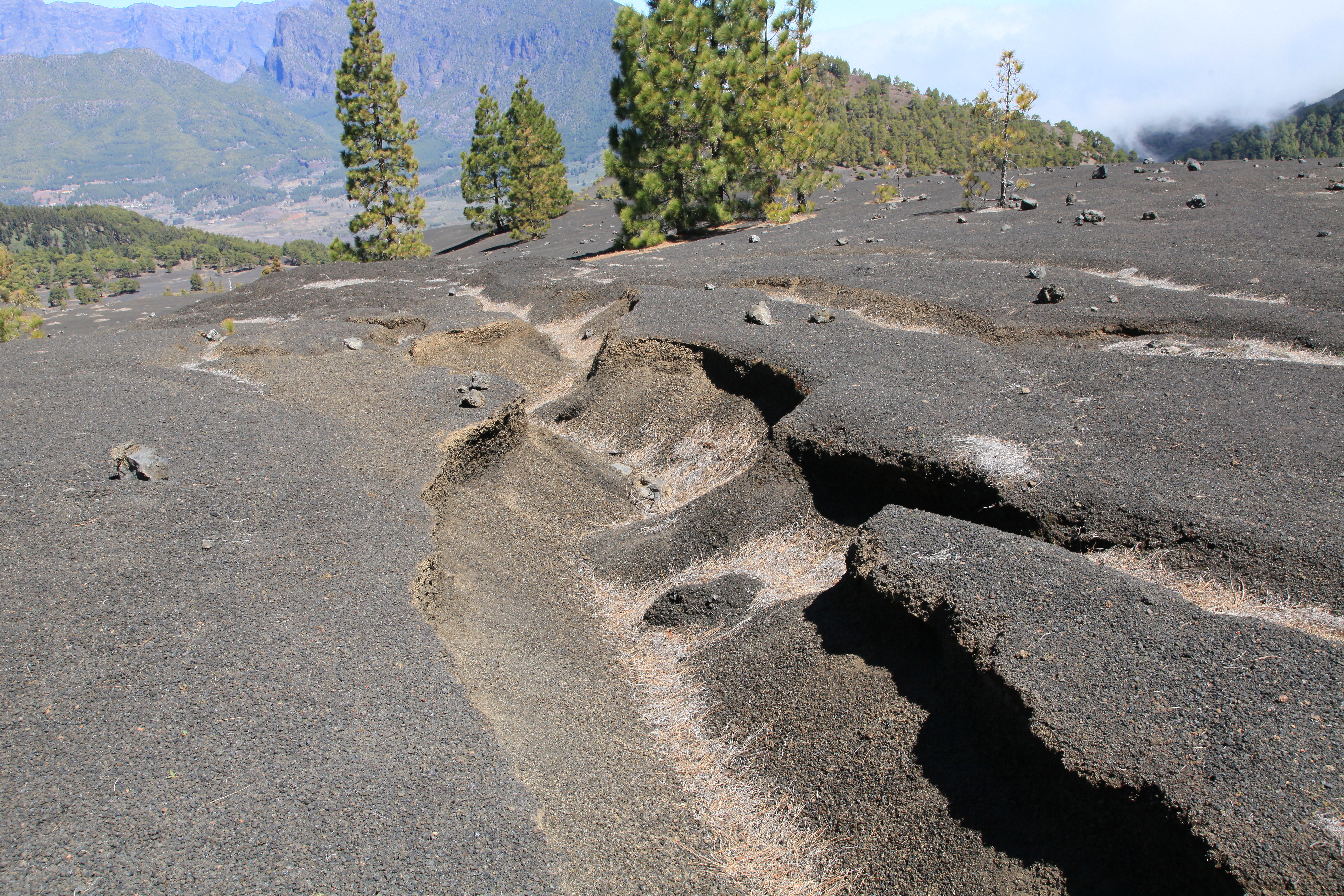 Llano del Jable, LP-301 in El Paso (La Palma), La Palma, Canary Island, Spain